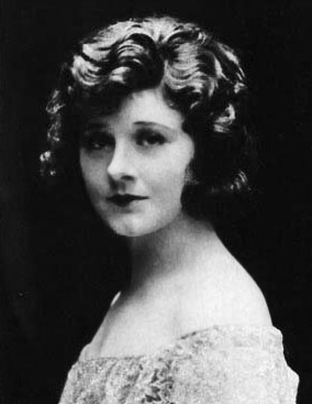 Publicity photo of Lillian Rich from Stars of the Photoplay